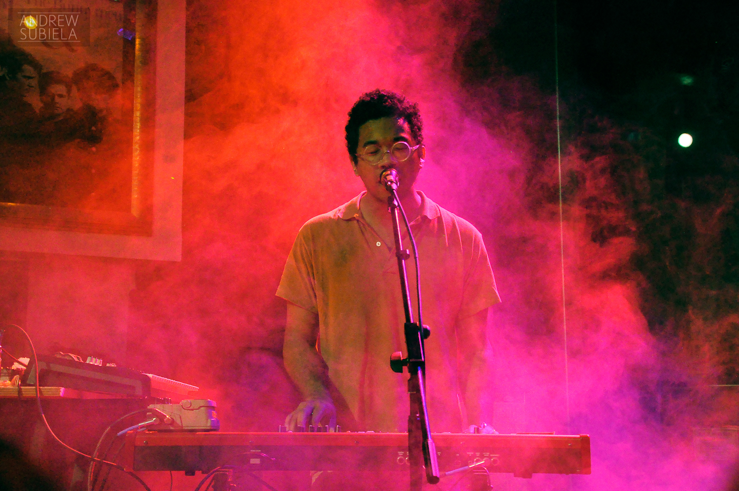 Toro y Moi at the Hard Rock Cafe, Makati on 15 February 2013